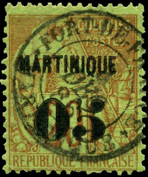 Martinique 5c overprint of 1886 on 20c stamp, first version of inscriptions